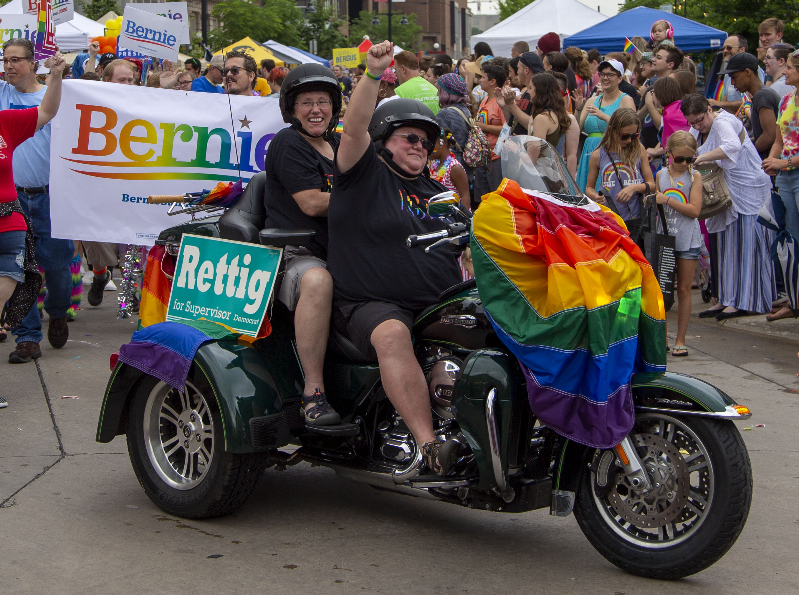 Pride Parade in Iowa City June 15, 2019. 49th Anniversary